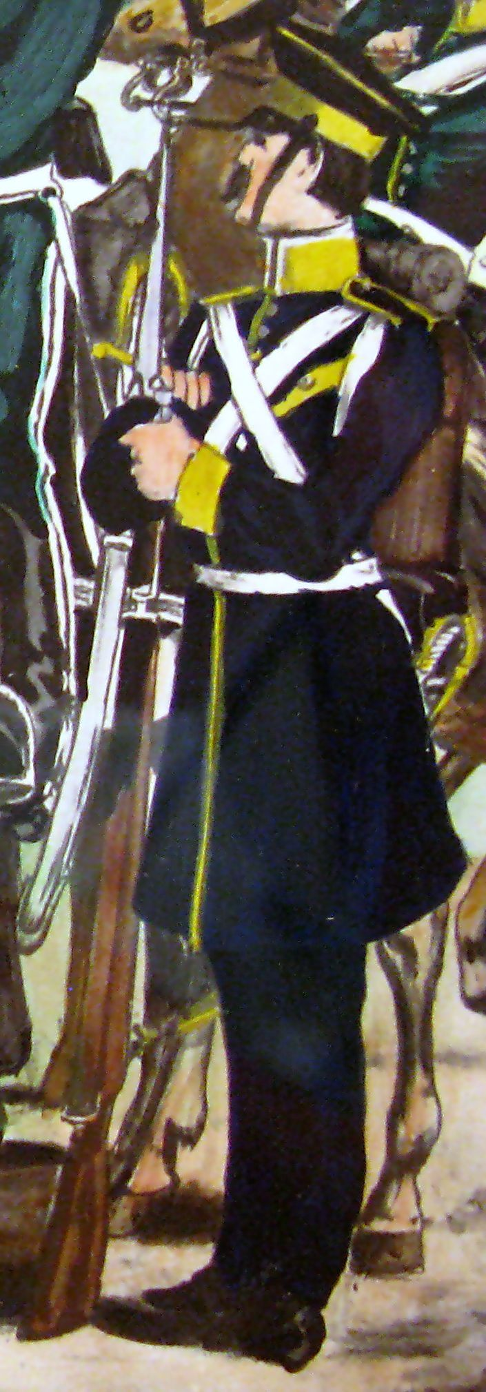 16th Infantry Regiment of Polish Army of November Uprising